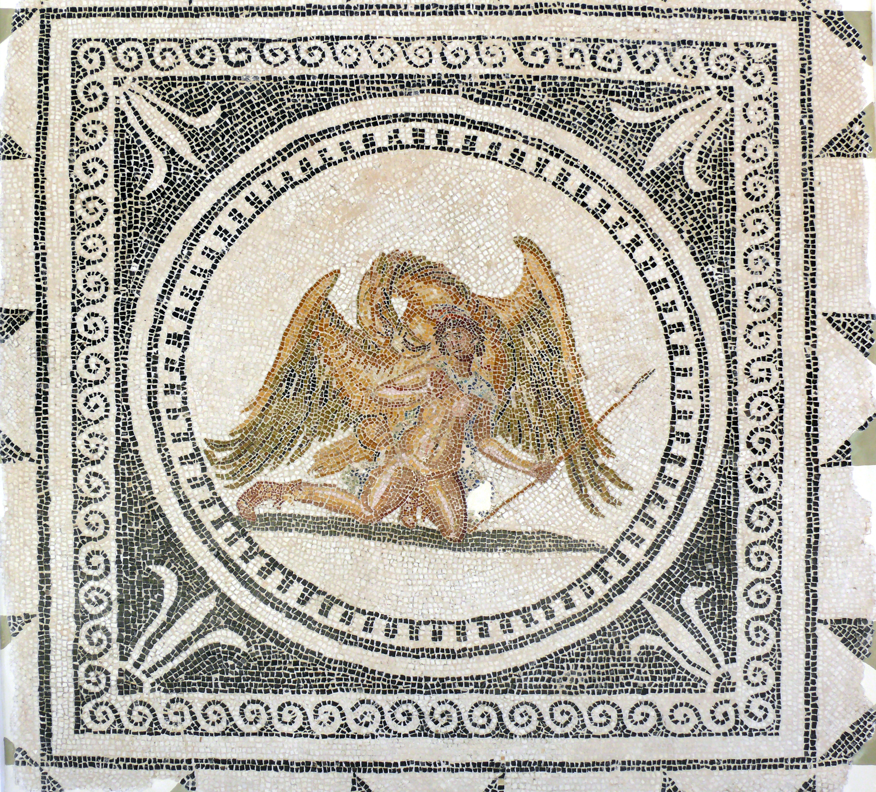 Ganymede, the beautiful Trojan prince, is abducted by Zeus, disguised as an eagle. Mid second century Roman house, cubiculum (bedroom) Sousse Archeological Museum of Sousse